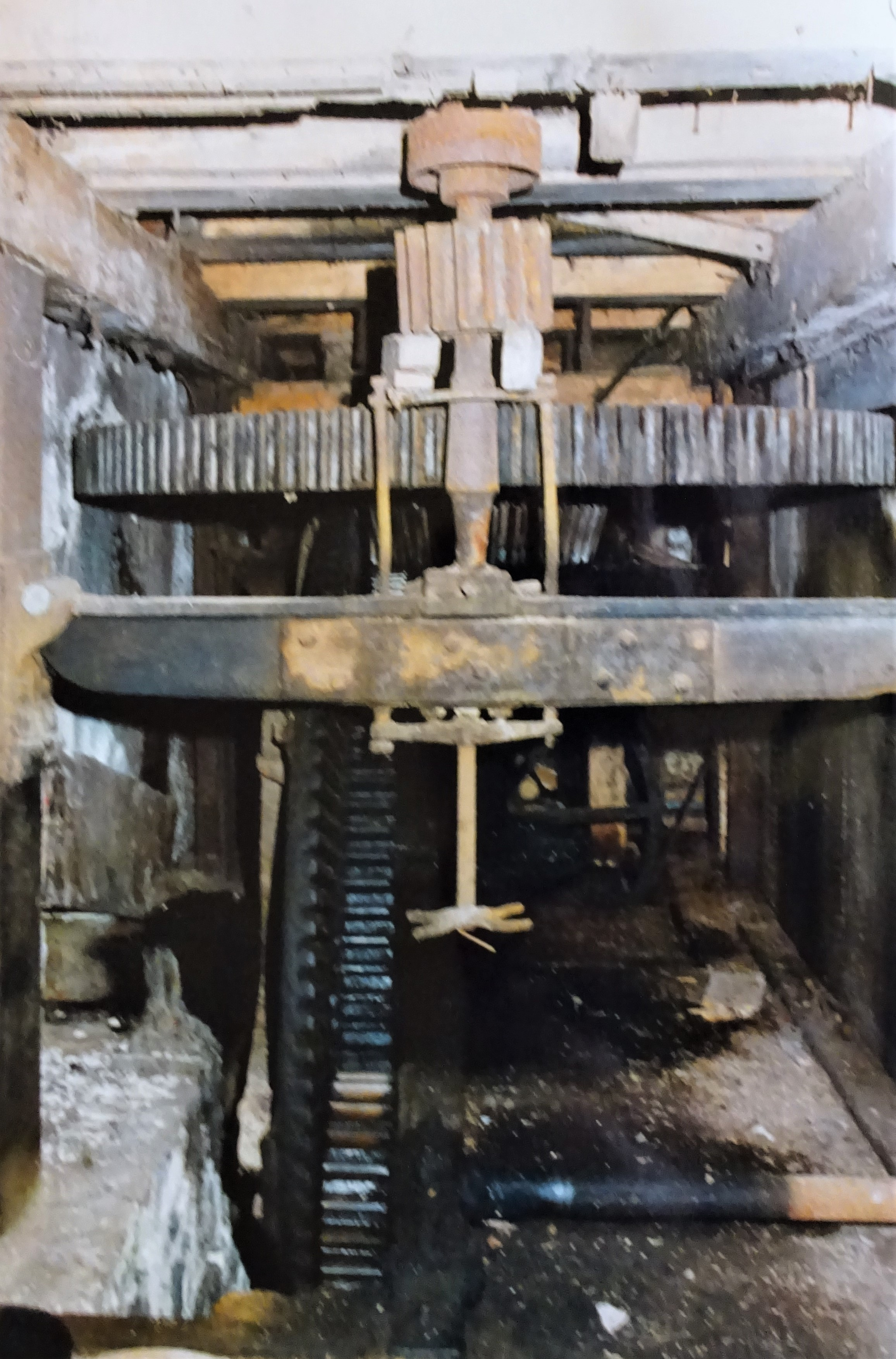 Coldstream Mill's millstone drive gear, Beith, Scotland. One of Scotland's last traditional mills. Closed circa 1995.